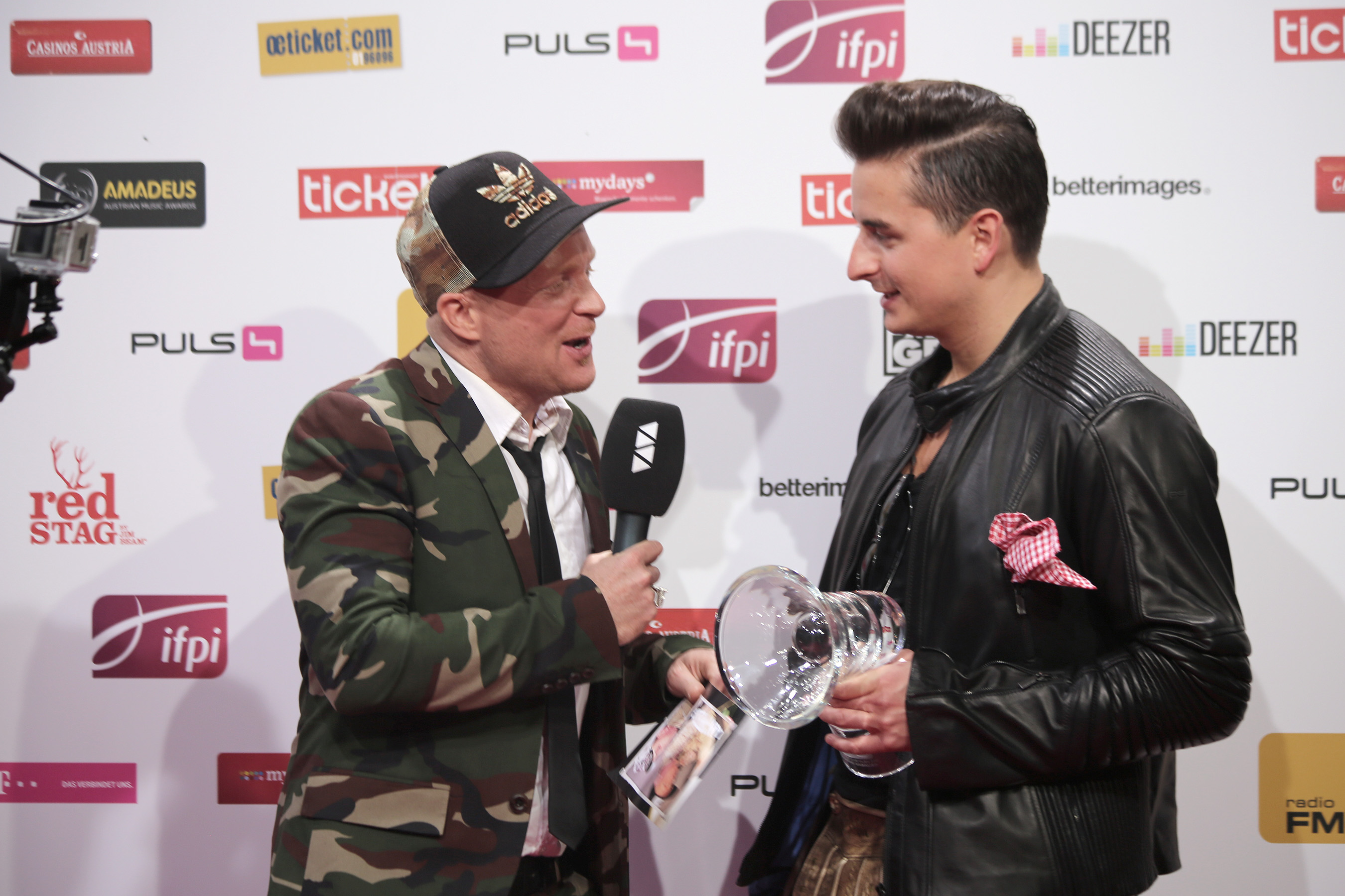 Andreas Gabalier at the Amadeus Austrian Music Award at Volkstheater in Vienna